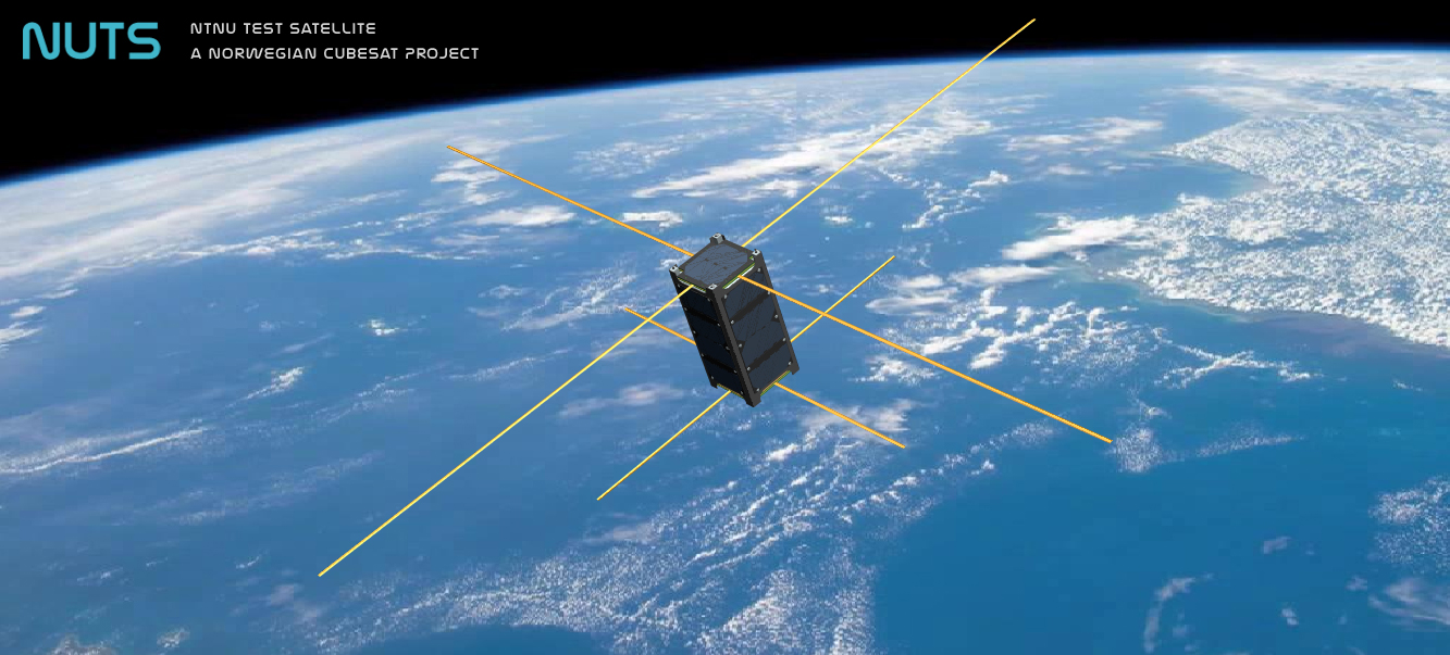 Rendition of the NUTS CubeSat in Orbit. Based on NASA/ ISS photo